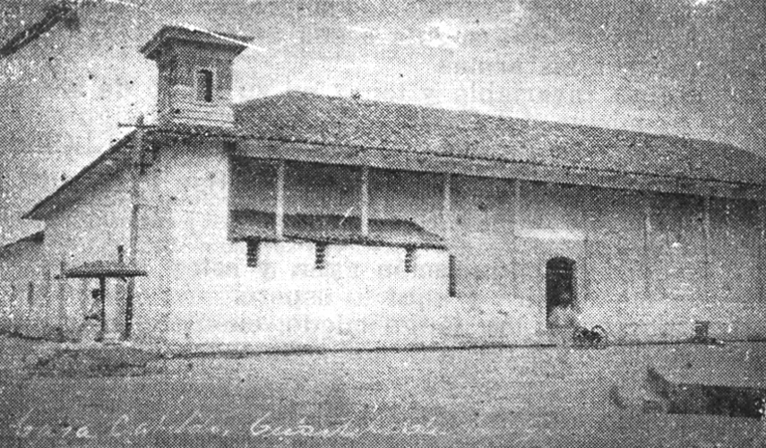 Fort Ocotal during the United States occupation of Nicaragua.